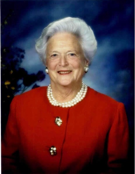 Barbara Bush Post Presidential Portrait